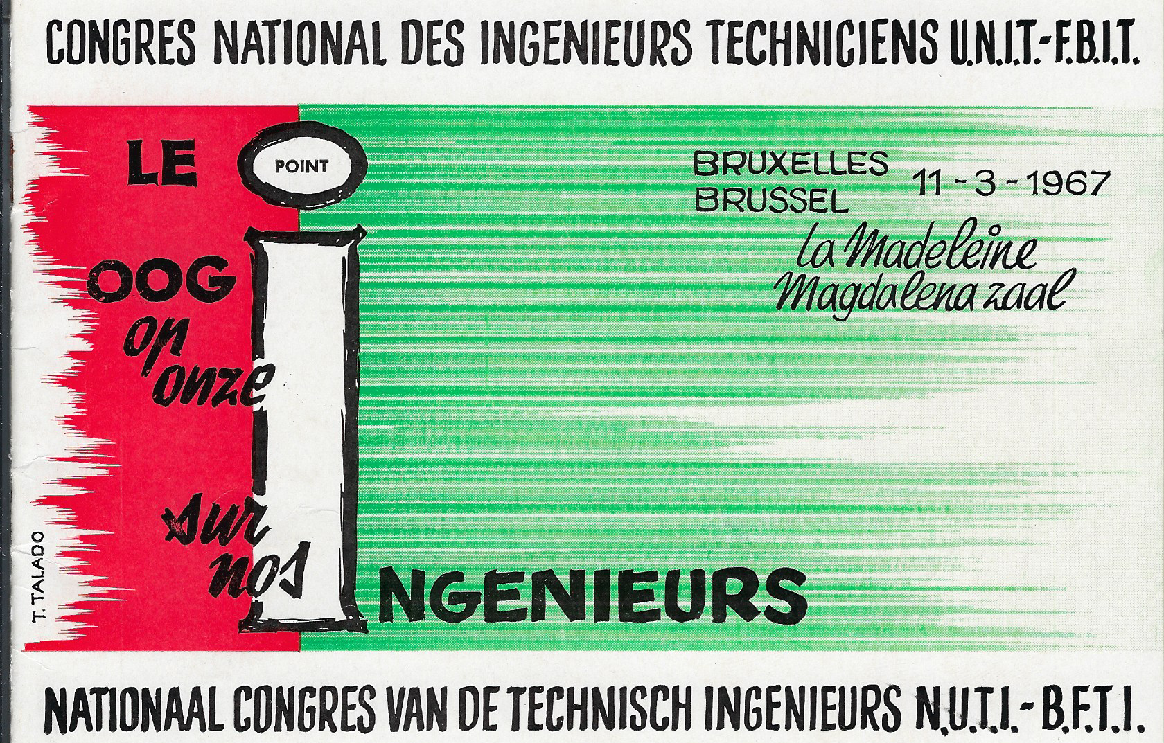 Congrès national des associations d'ingénieurs-techniciens dans la salle La Madeleine le 11 mars 1967